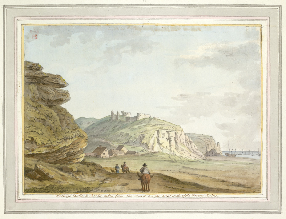 A view of Hastings Castle in East Sussex 'taken from the road on the West Side of the Priory Ruins.'